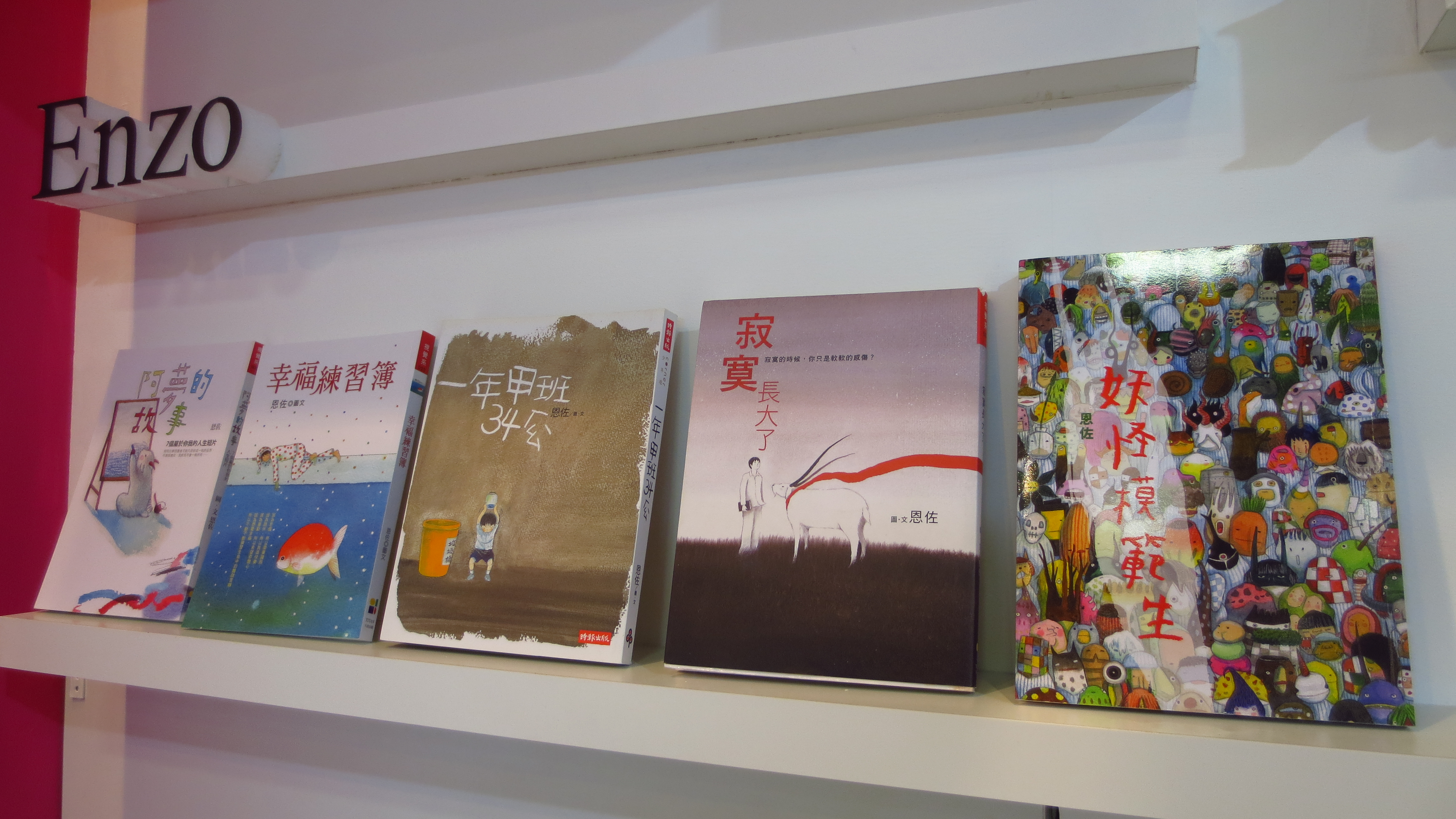 Exhibition of books of Enzo at Bologna Children´s Book Fair on March 30, 2015